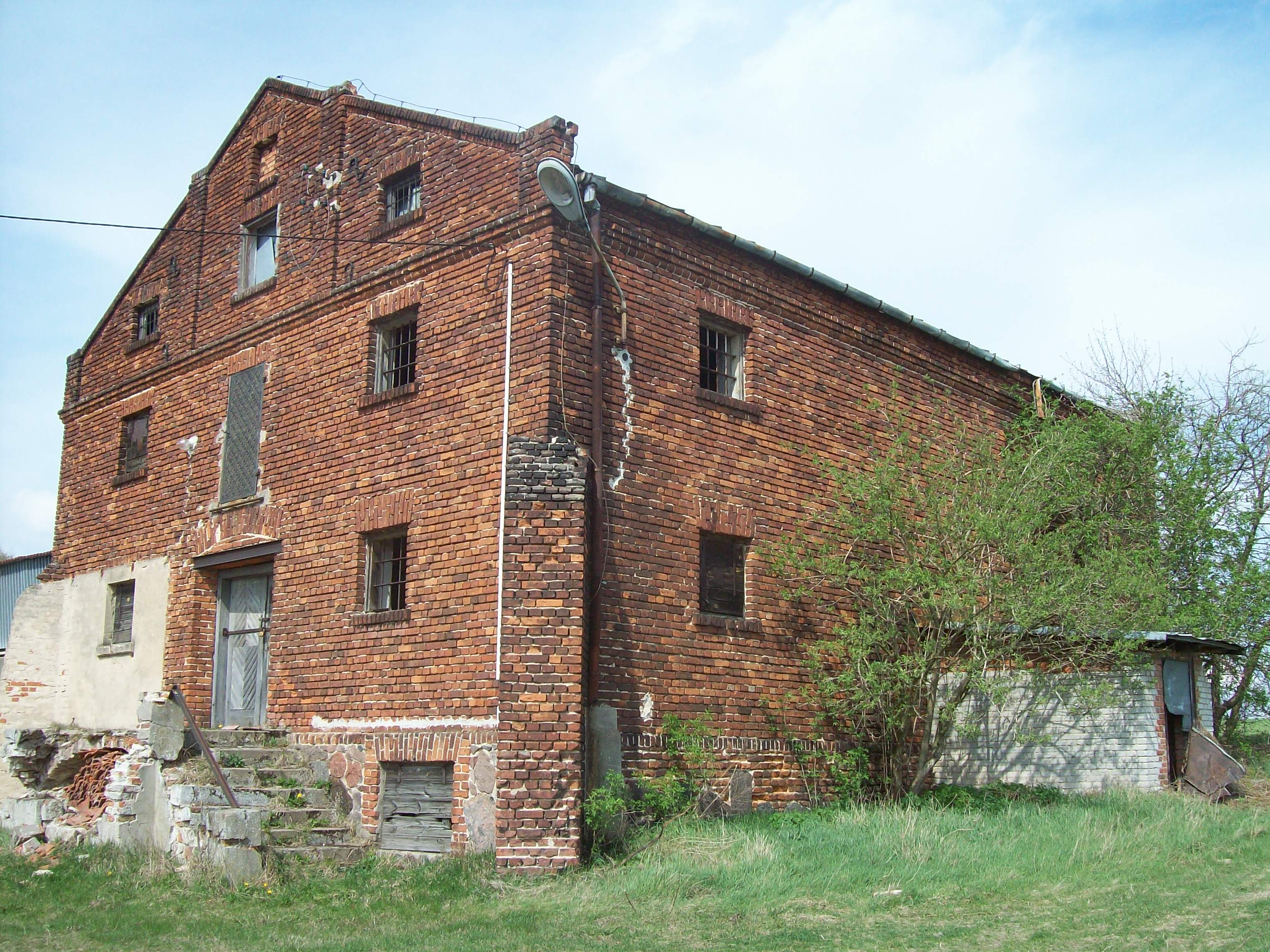 Ruins of old granary in Swiesz Poland April 2012